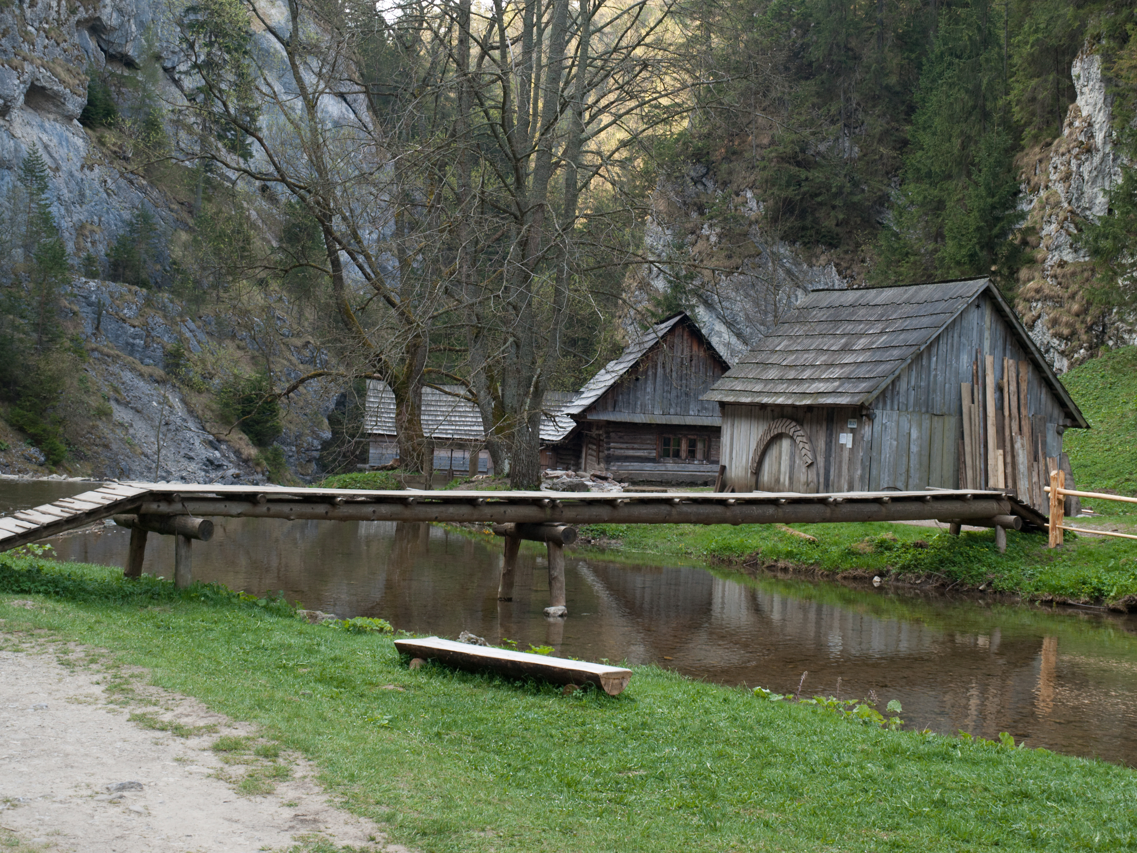 Oblazy in Kvačianska valley – watermills.